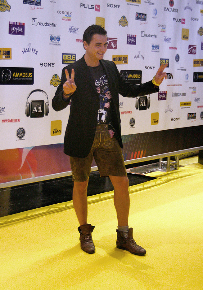 Andreas Gabalier at the Amadeus Austrian Music Award 2010 (Wiener Stadthalle, Vienna, Austria)